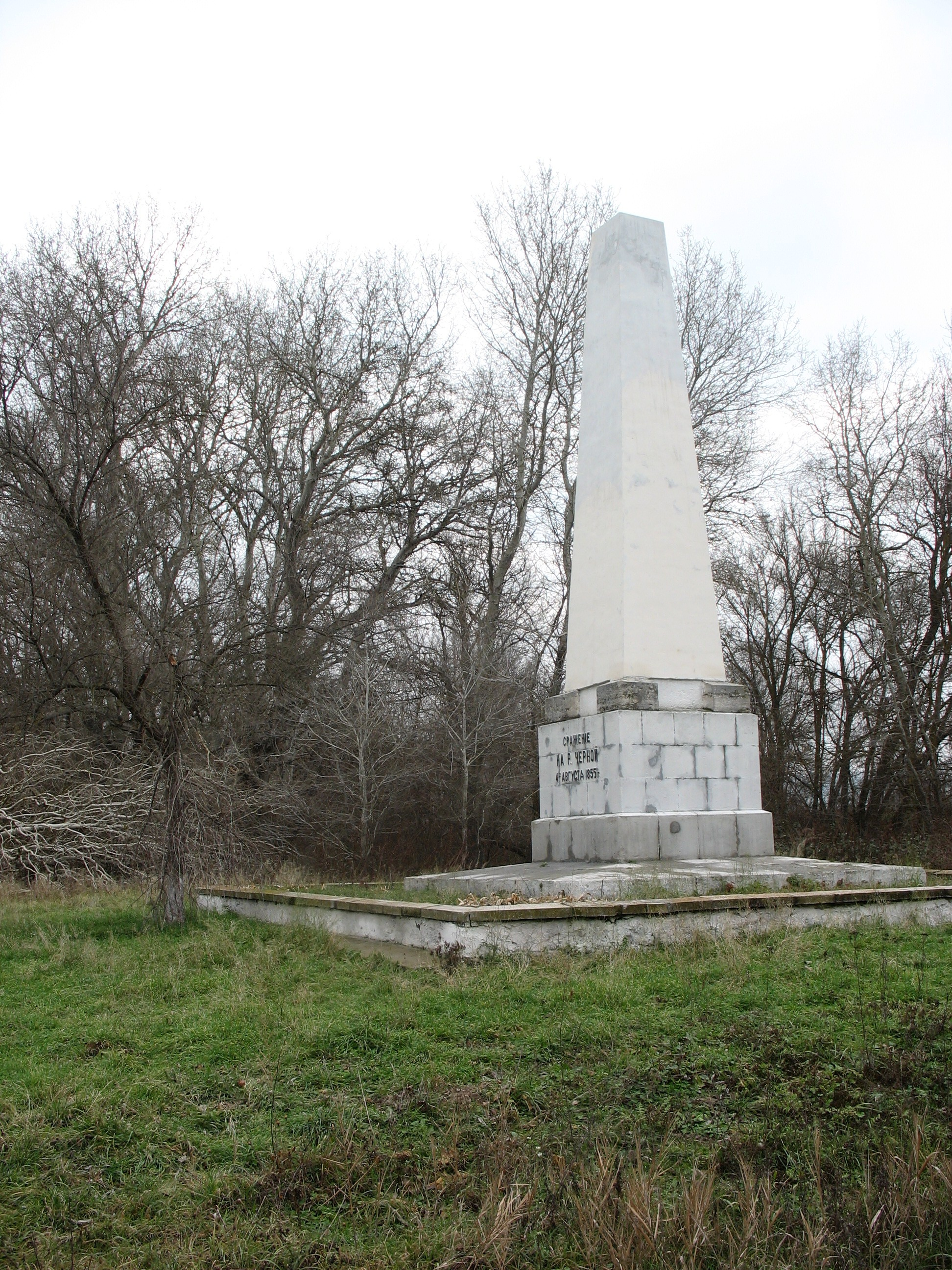 Monument to the Battle of the Chernaya